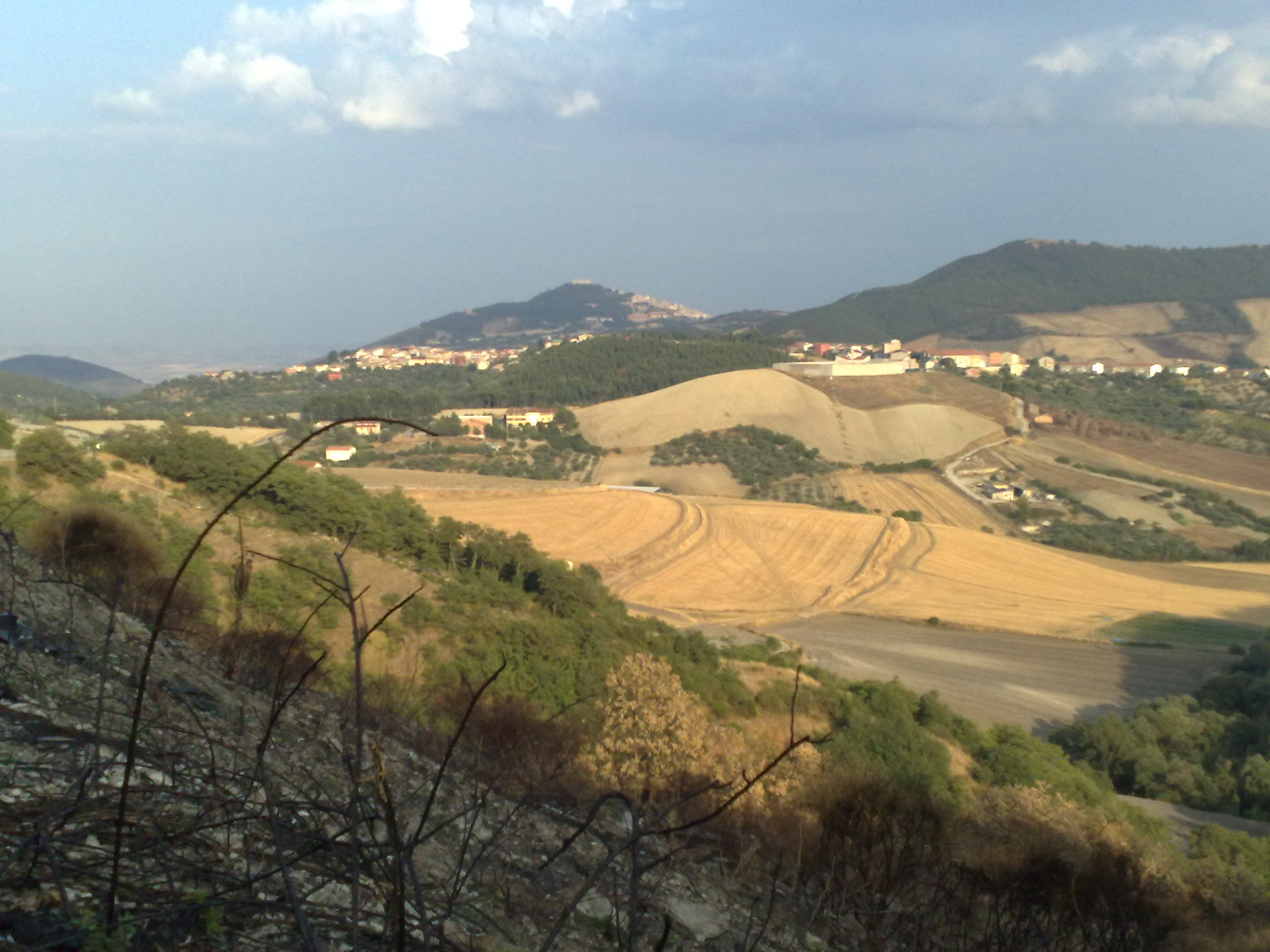 View of Daunian Mountains